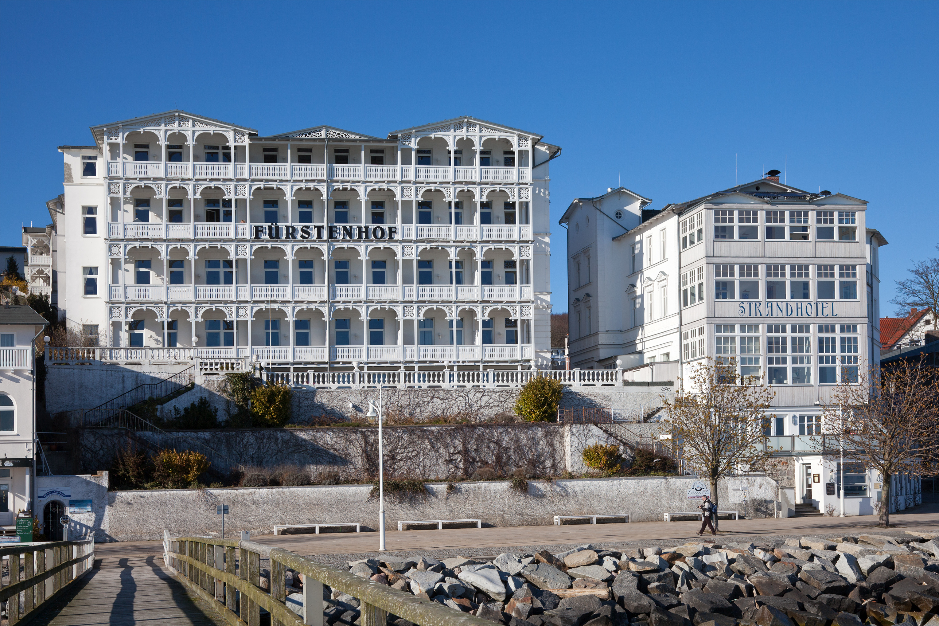 Sassnitz, Hotels "Fürstenhof" and "Strandhotel"